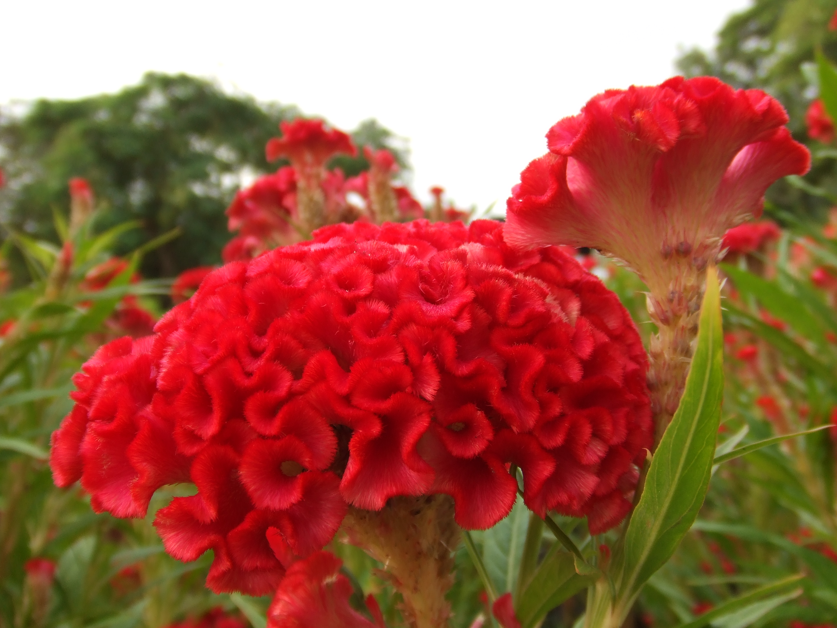 A Red Cockscomb flowers